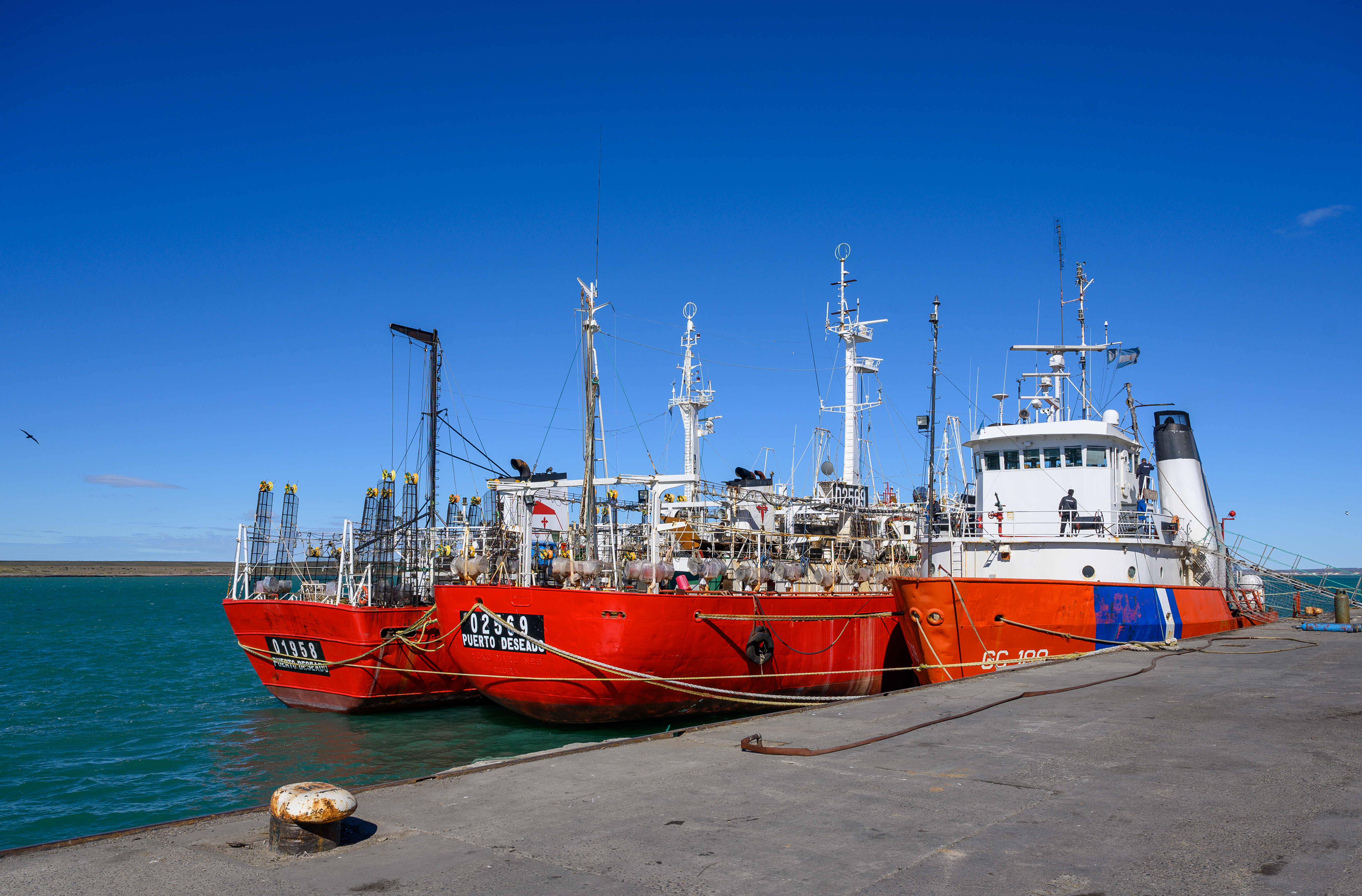 Fisherboats in the Port Deseado